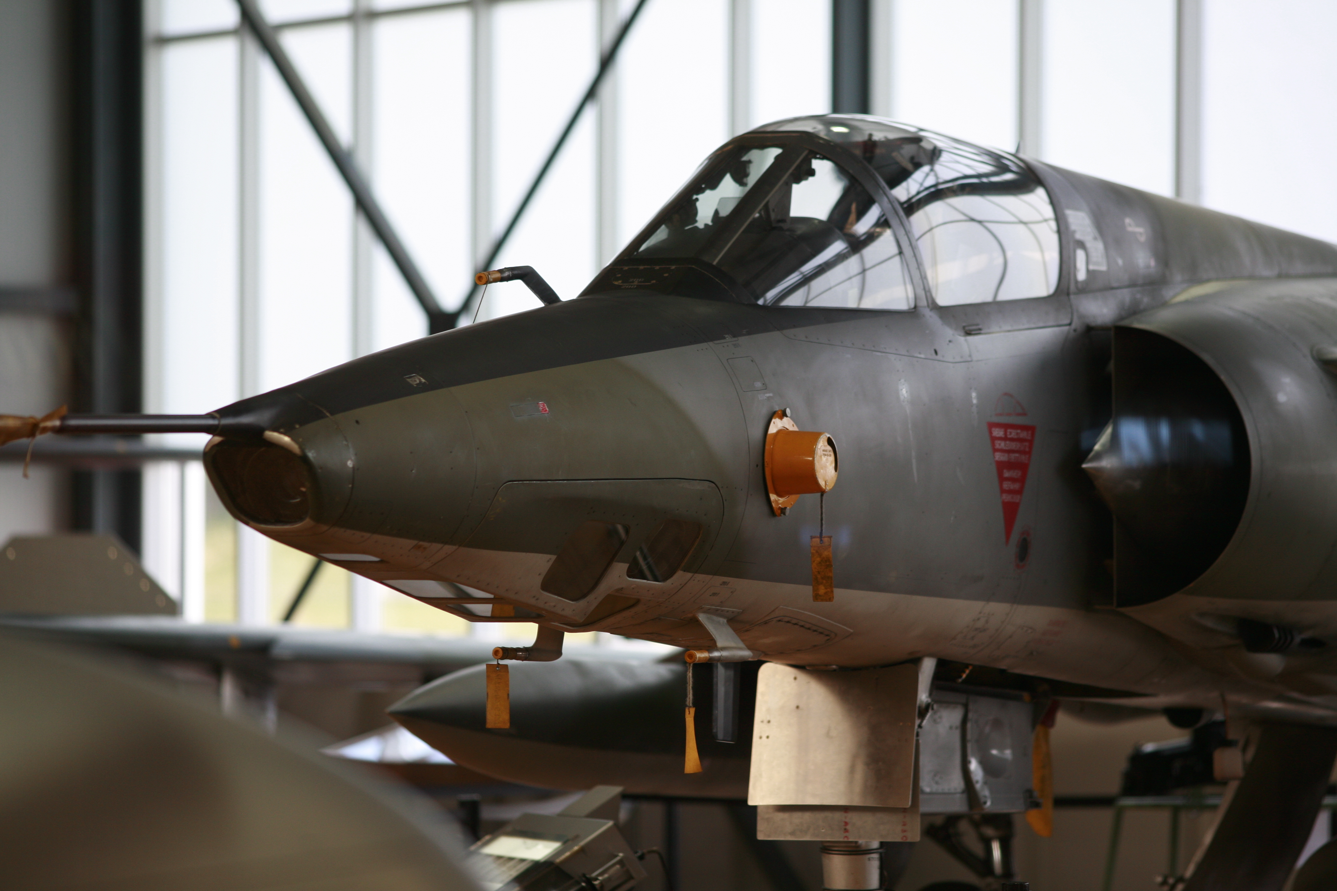 Dassault Mirage IIIRS of the Swiss Air Force, on display at Payerne Airbase.